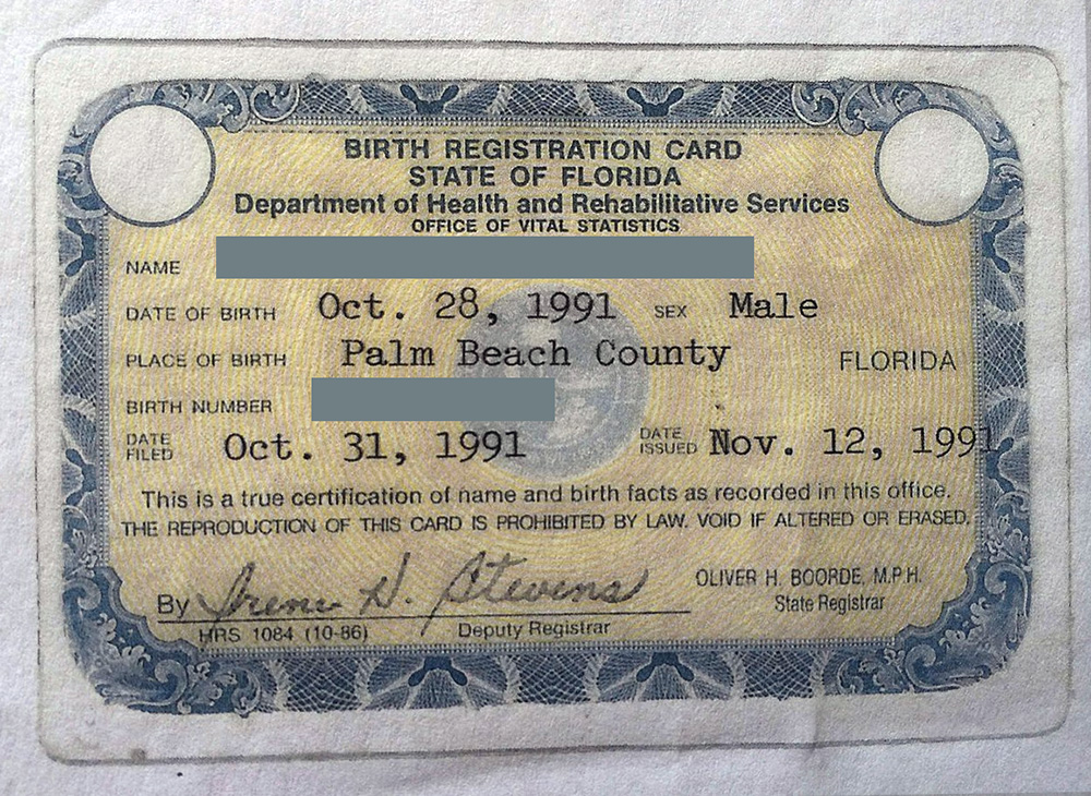 A Florida birth registration card.